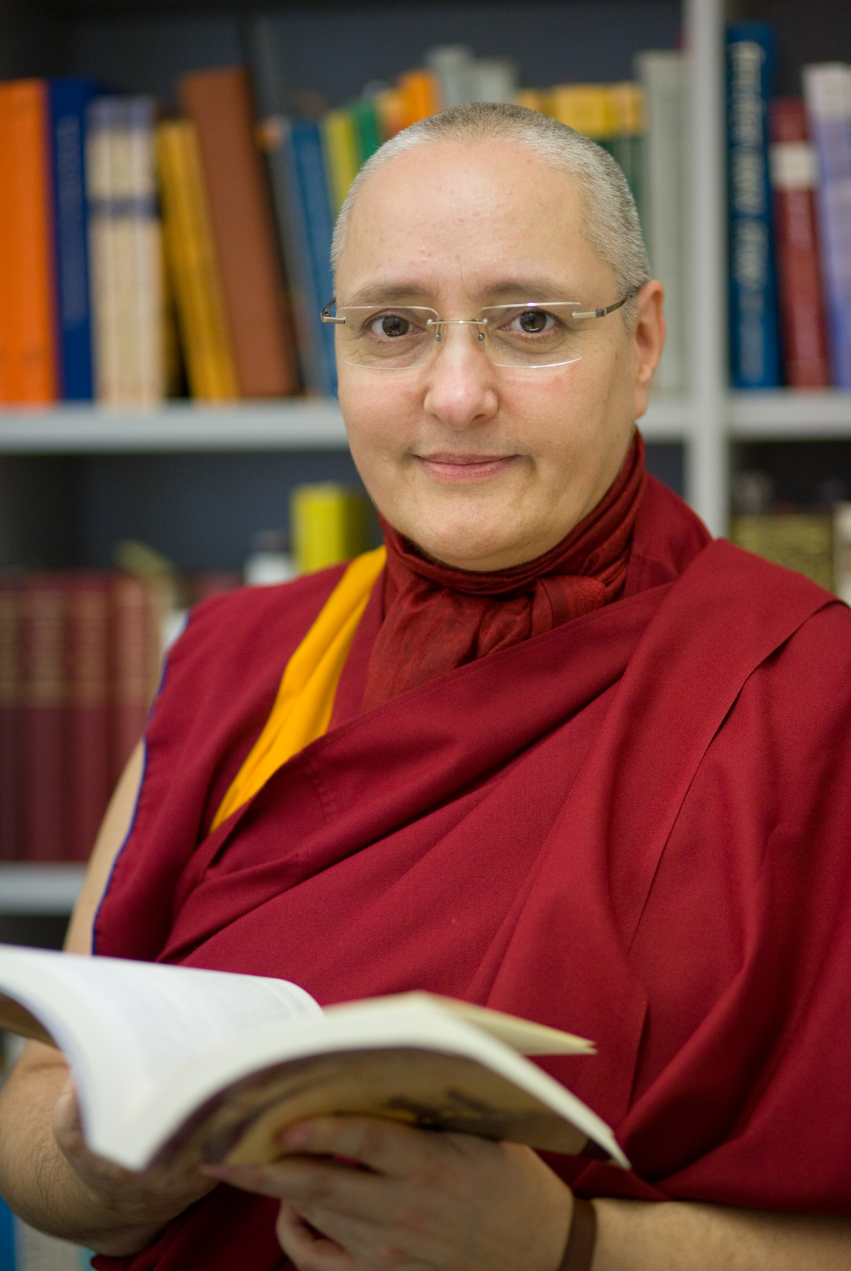 Dr. phil. Carola Roloff is a Buddhist nun and Tibetologist at the University of Hamburg